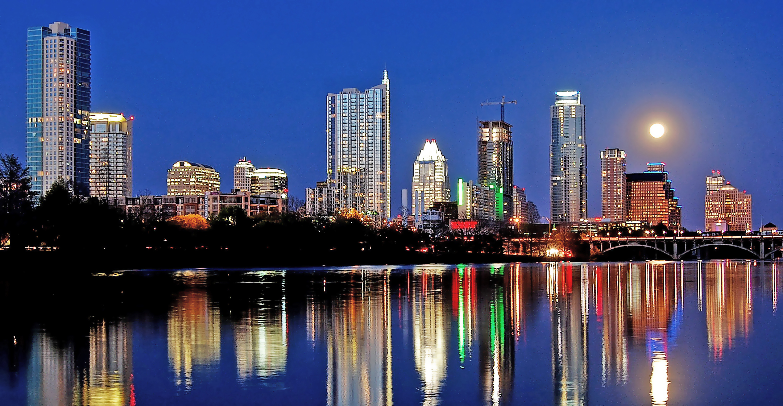 Night view of Austin skyline and Lady Bird Lake as seen from Lou Neff Point